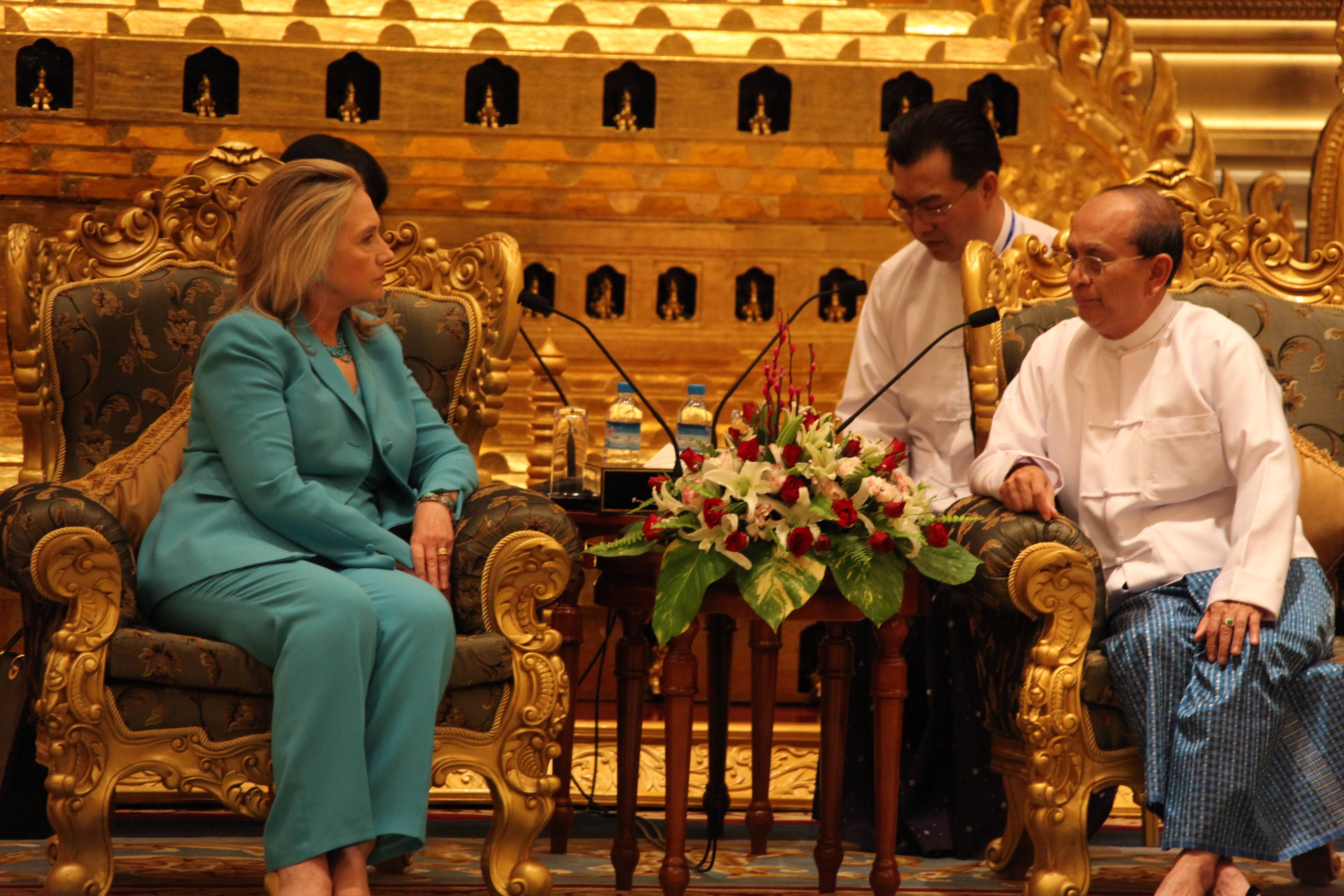 U.S. Secretary of State Hillary Rodham Clinton meets with Burmese President U Thein Sein at the Office of the President in Nay Pyi Taw, Burma, on December 1, 2011. [State Department photo/ Public Domain]